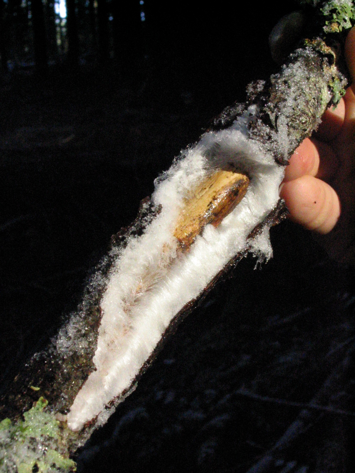 Example of the hydraulic power of capilliary freezing (an early state of "hair ice"). Frost capilliary action taken on Mount Maxwell, Salt Spring Island, British Columbia, Canada.